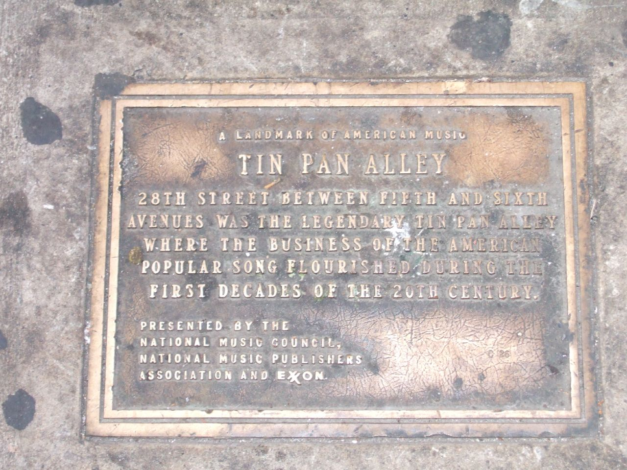 Plaque for Tin Pan Alley in New York. The plaque reads:A landmark of American MusicTin Pan Alley28th Street between Fifth and Sixth Avenus was the legendary Tin Pan Alley where the business of the American popular song flourished during the first decades of the 20th century.